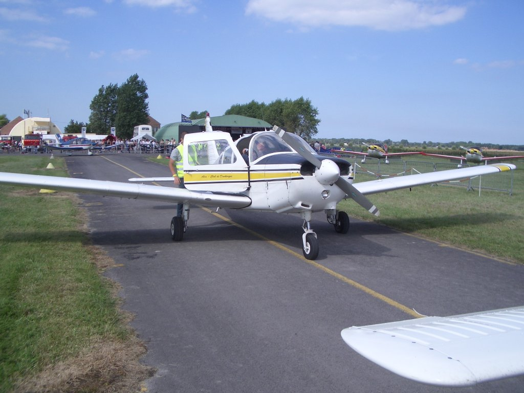 General picture of Dunkerque's flight meeting (August 2005)